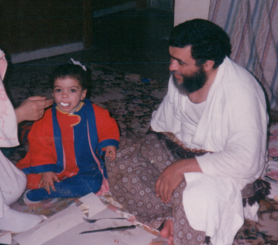 Ahmed Said Khadr with his youngest daughter